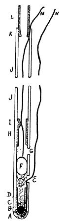 The first gastroenterology pH-probe by Jesse F. McClendon